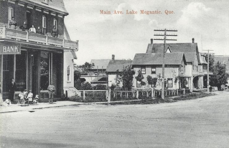 Print (photomechanical), Main Avenue, Lake Megantic, QC, about 1910, Ink on paper mounted on card - Collotype - 8.8 x 13.8 cm